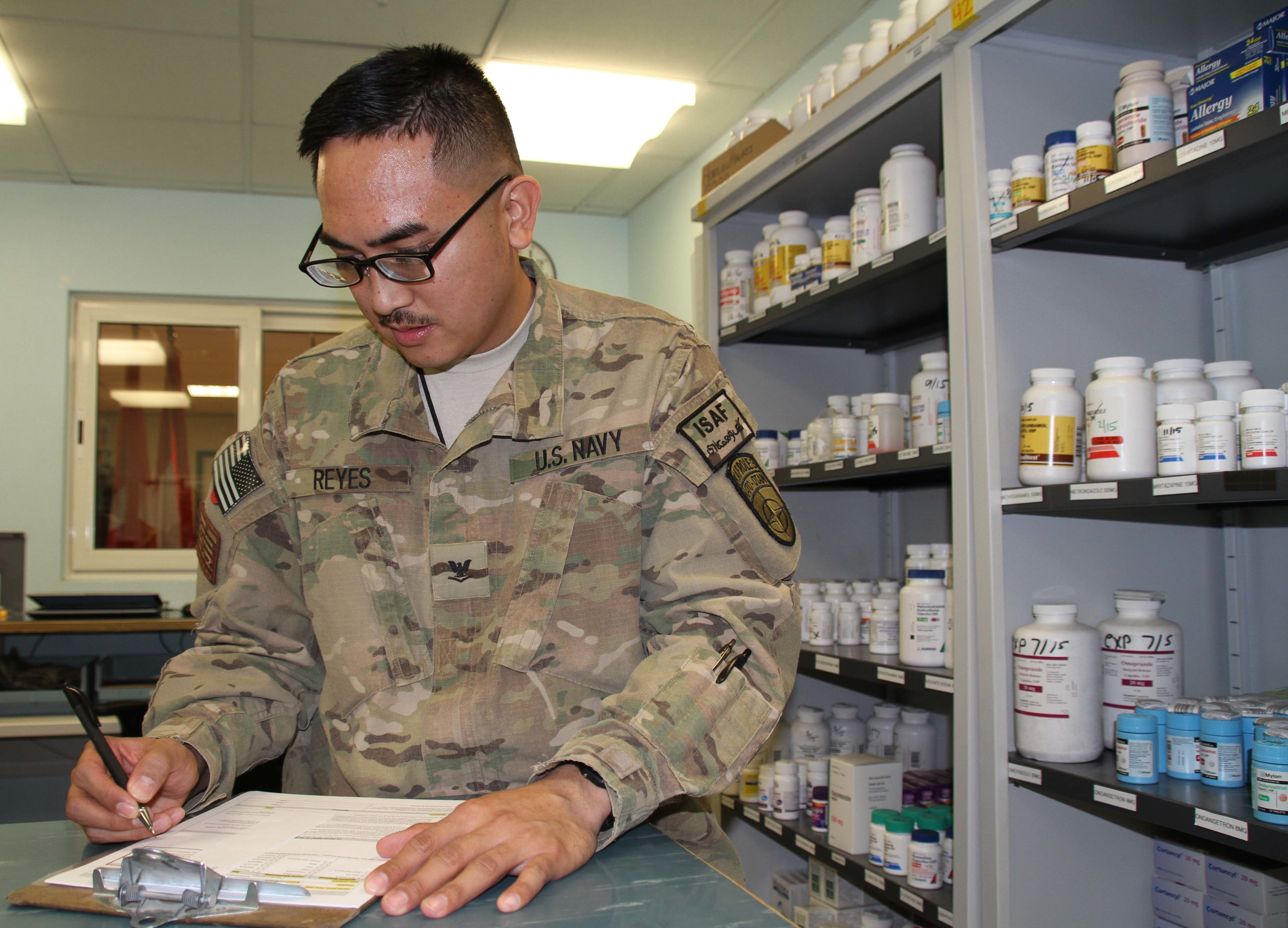 HM3 Marc Reyes, a pharmacy technician, stocks the pharmacy at the NATO Role 3 Multinational Medical Unit.